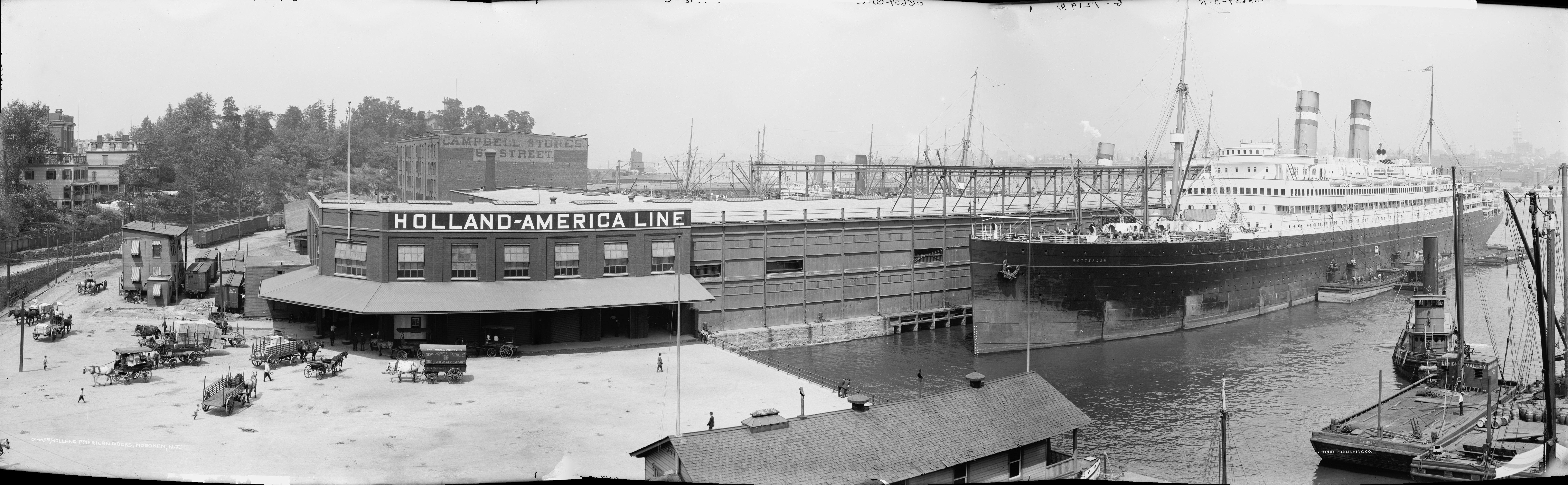 Original caption: “Holland American docks, Hoboken, N.J.” Reproduction Number: LC-D4-15659 L (b&w glass neg.) LC-D4-15659 C (b&w glass neg.) LC-D4-15659 R (b&w glass neg.) Medium: 3 negatives : glass ; 8 x 10 in. Repository: Library of Congress Prints and Photographs Division Washington, D.C. 20540 USA Panorama stitching: Panorama stitched from the three negatives by Pechristener